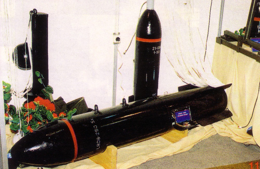 LBOB-250Sz